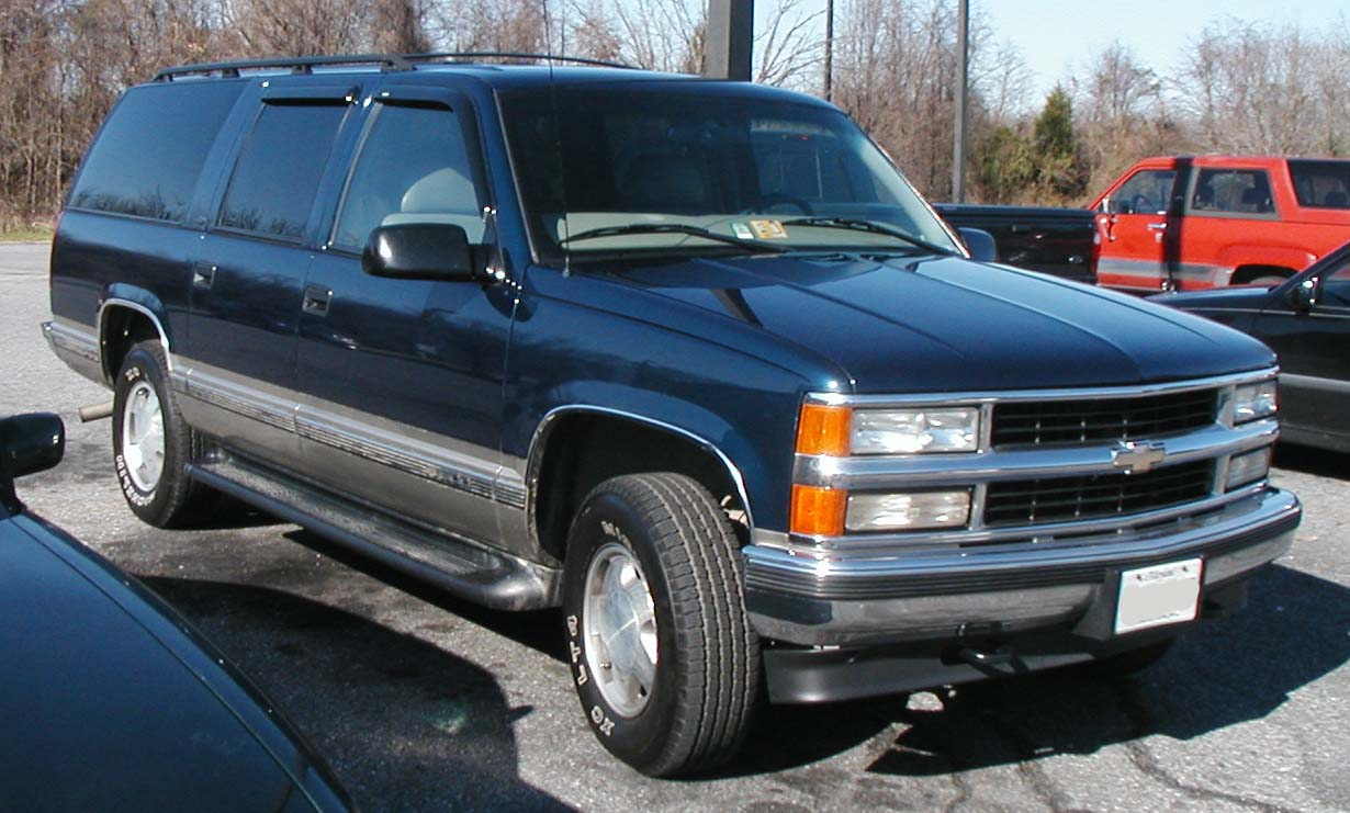 1997-1999 Chevrolet Suburban photographed in USA.